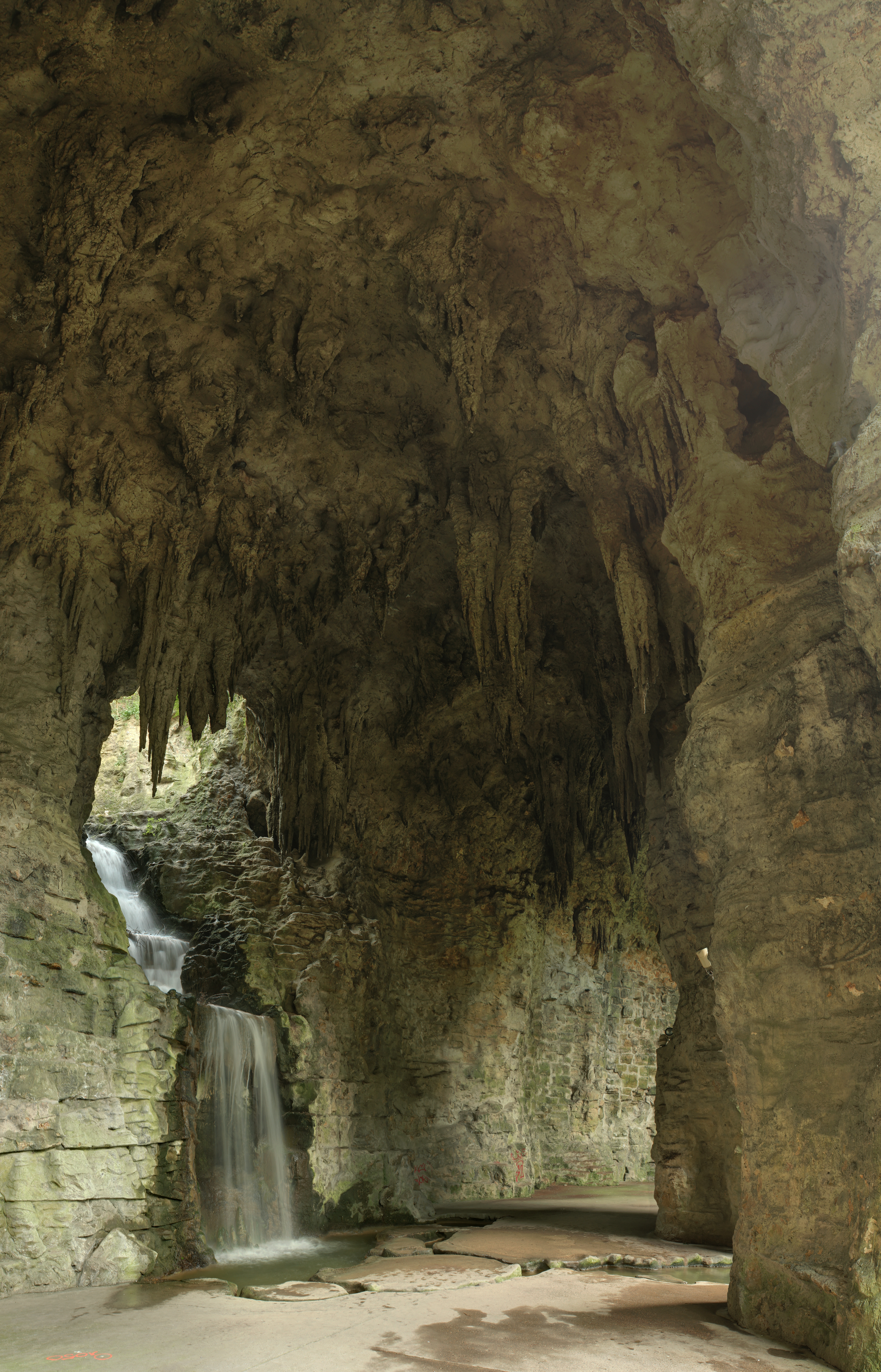 Grotto in the Buttes-Chaumont park, in Paris. 12 section × 3 exposure stops panoramic image obtained using Hugin. Vision angle: 80°, Projection: Stereographic.